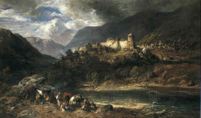 Painting by Carl Ebert (1821-1885) of the Vranduk fort and 18th century Bosnians at the Vranduk mountain next to the Bosna river. Title: Die Festung Vranduk in Bosnien.